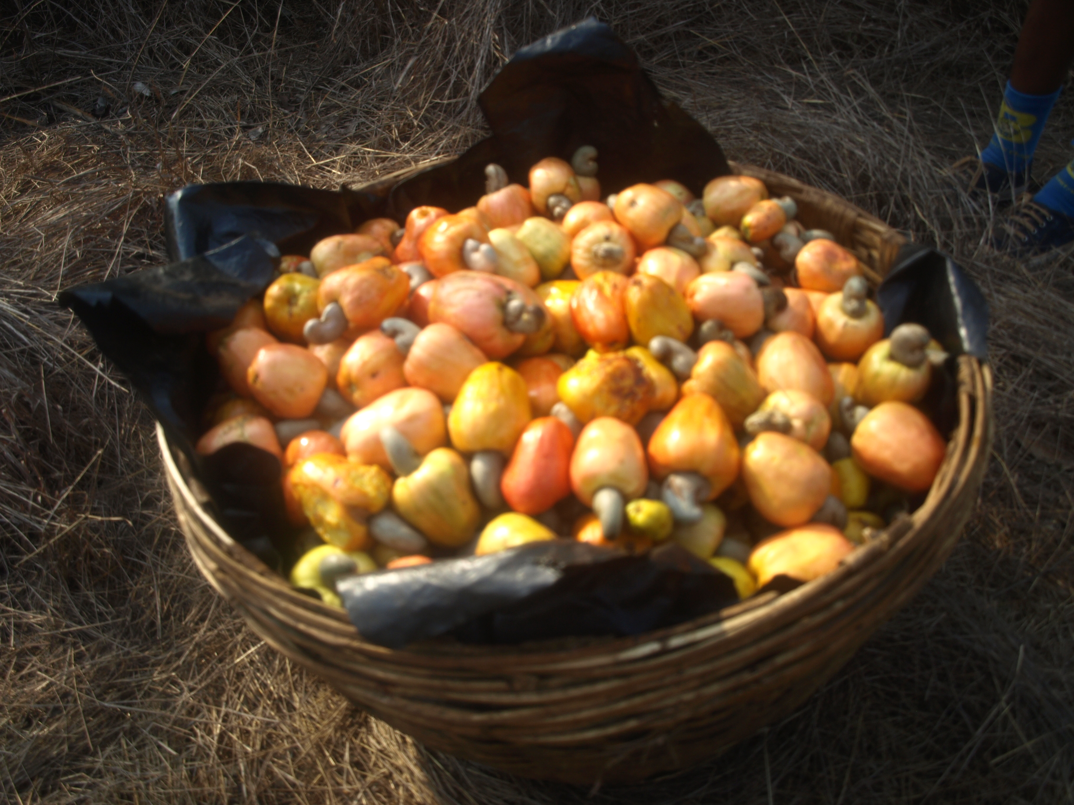 Photo by Frederick Noronha